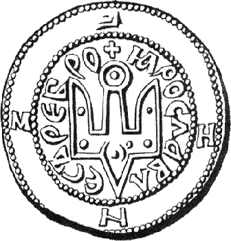 A coin of Yaroslav the Wise